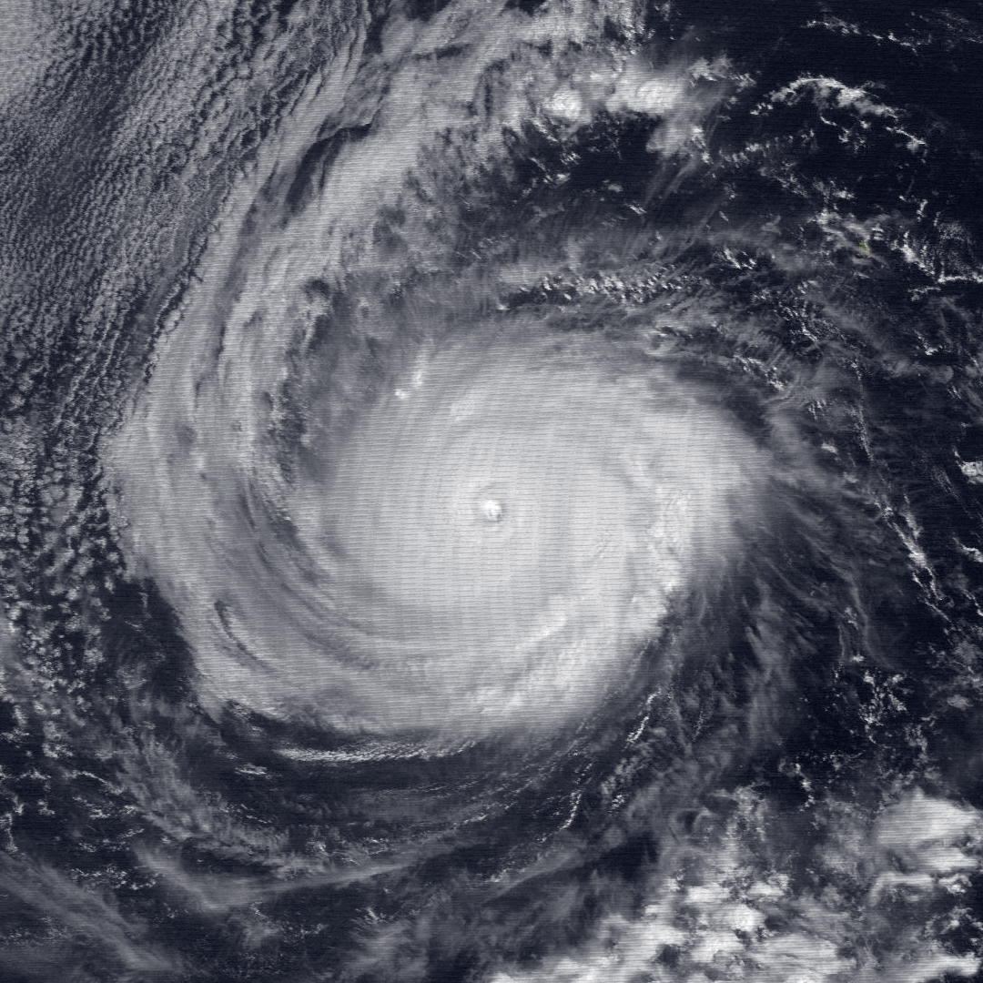 Hurricane Ramon at peak intensity over the eastern Pacific Ocean on October 9, 1987